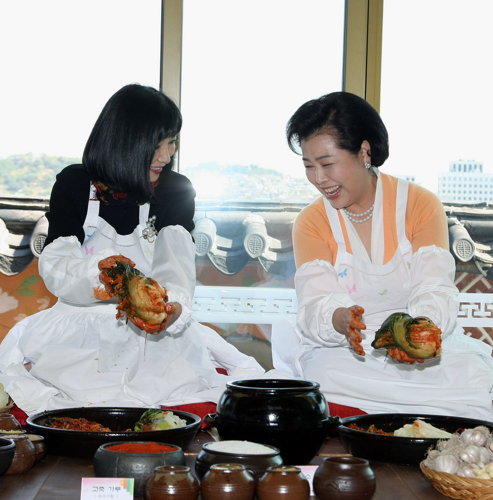 First lady Kim Yoon-ok, right, serves kimchi to Miyuki Hatoyama, wife of Japan’s Prime Minister Yukio Hatoyama, while making kimchi together